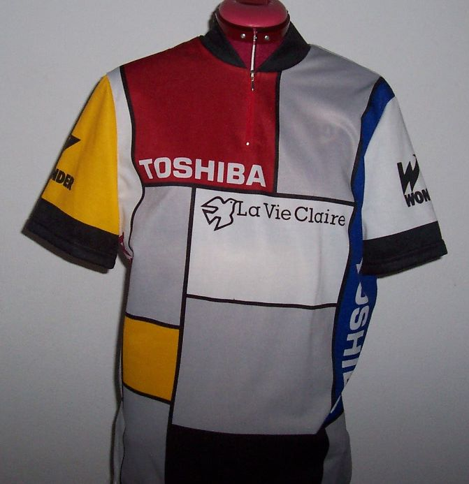 La Vie Claire jersey, circa 1984.